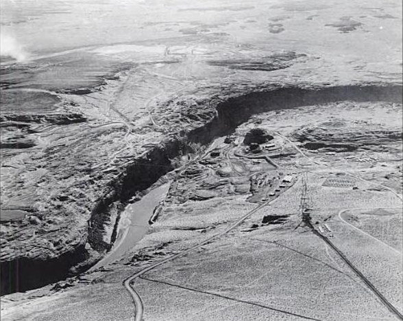 Aerial view of Glen Canyon and free-flowing Colorado River in Arizona and Utah (late 1957). Prior to construction of the Glen Canyon Dam here (completed 1966).